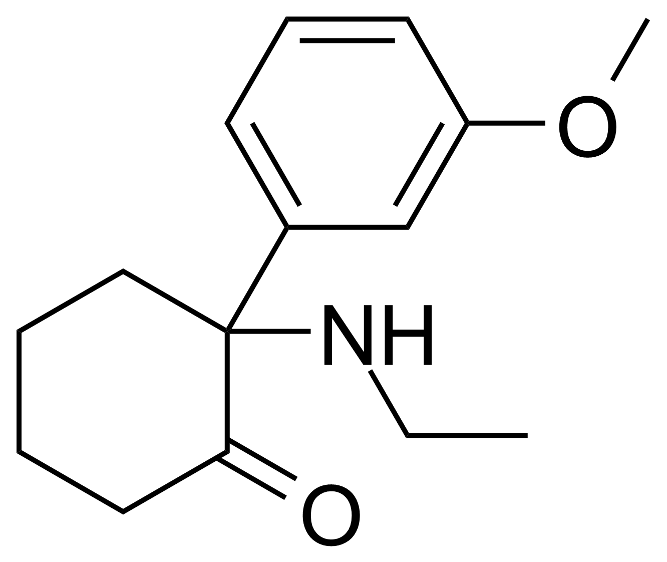 Structure of methoxetamine.